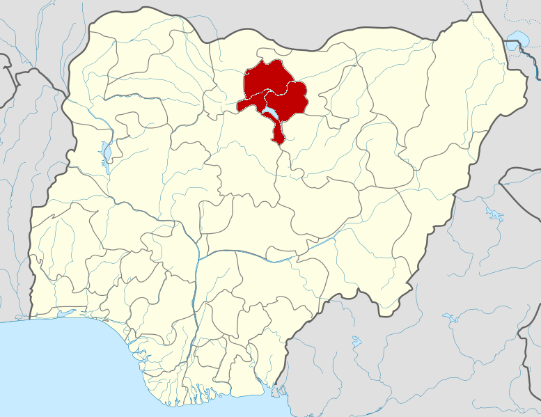 Map locator of Nigeria.